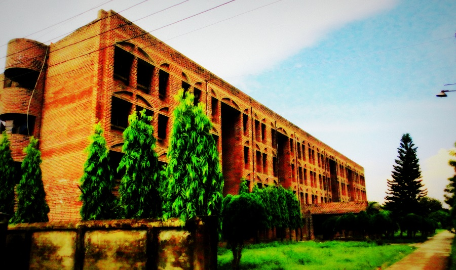 Tajuddin Ahmed Hall,HSTU,Dinajpur